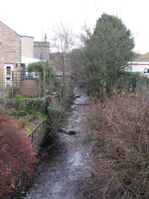 Poltross Burn, Gilsland The Cumbria/Northumberland county boundary leaves the River Irthing (to the north, behind the photographer) and runs along Poltross Burn southwestwards towards the A69 in NY6463.